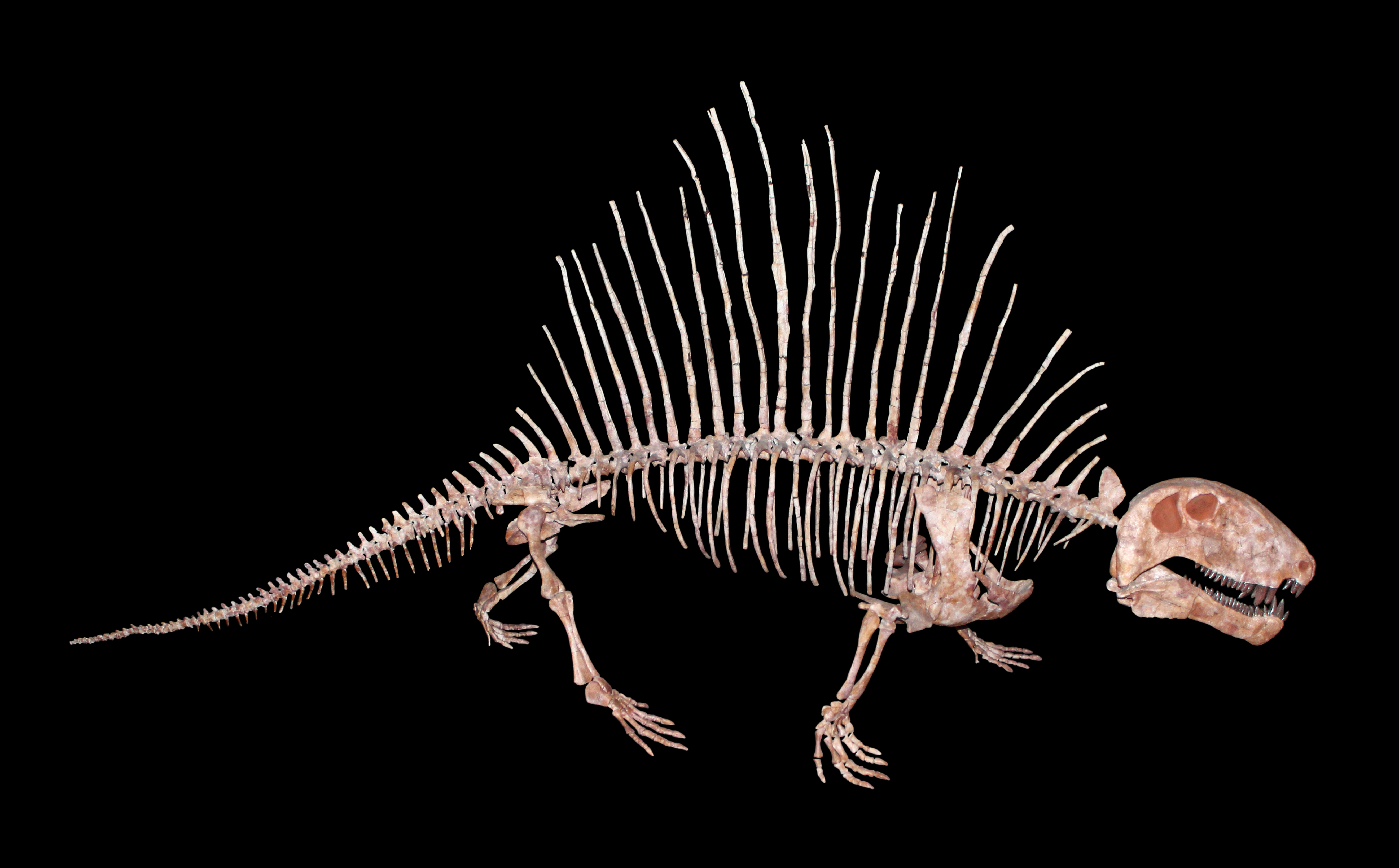 Dimetrodon incisivum, Sphenacodontidae; Permian, Texas, USA; Staatliches Museum für Naturkunde Karlsruhe, Germany.